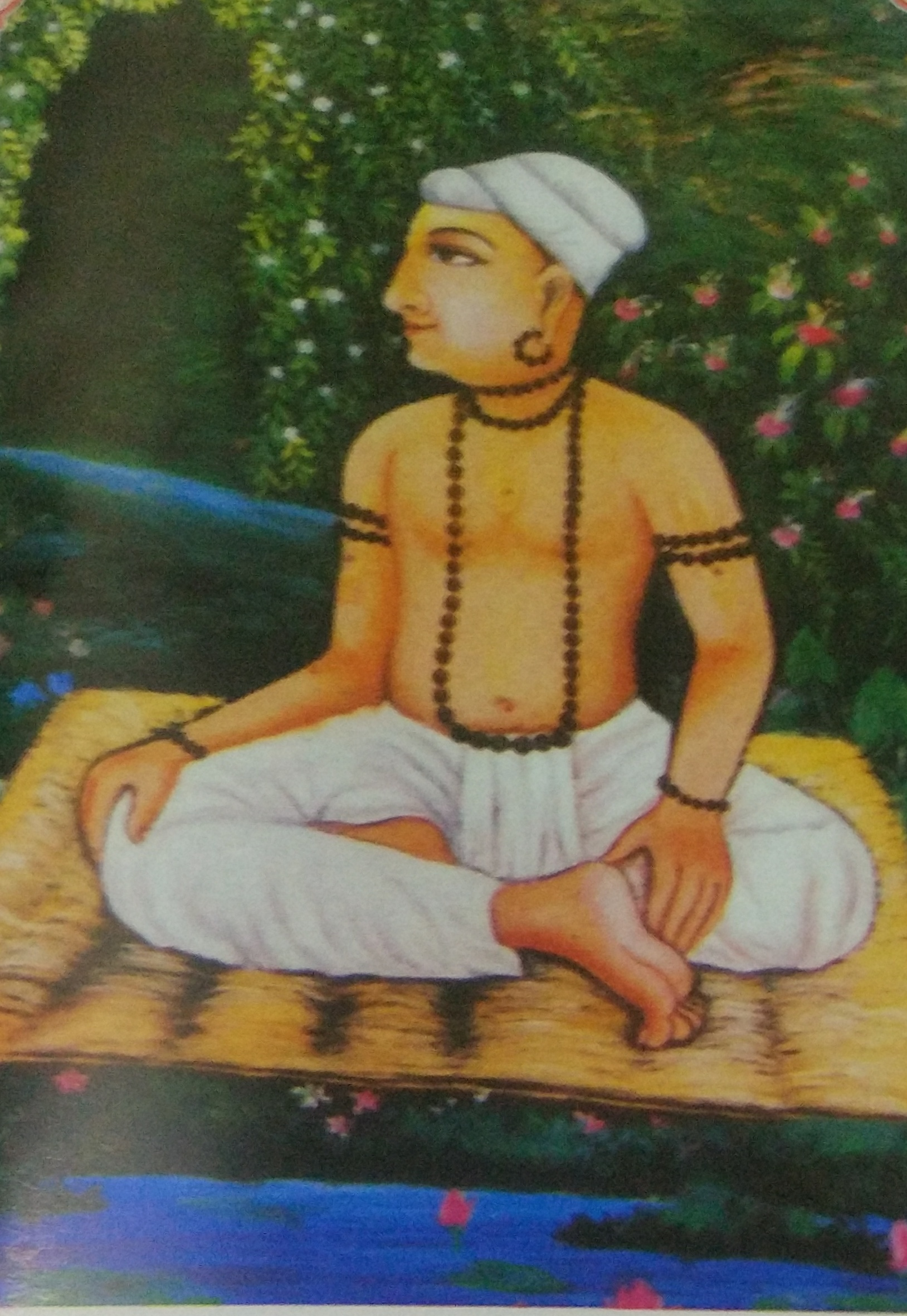 Shri Hariram Vyas Ji as depicted in his book Shree Vyas Vani